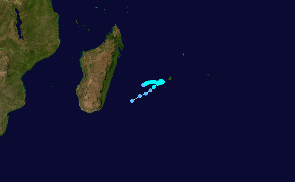 Cyclone Clotilda (1987) track. Uses the color scheme from the Saffir-Simpson Hurricane Scale.